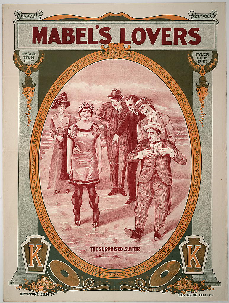 This was the advertising poster for the 1912 film "Mabel's Lovers", starring Mabel Normand.